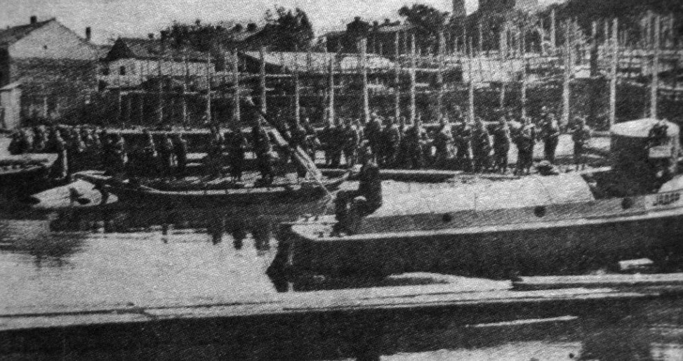 Patrol boat Jadar, on August 6th, 1915